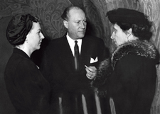 Miss Florence Stephens (right) in conversation with Prince Carl Bernadotte and his wife Ann Larsson during the trial in 1957.